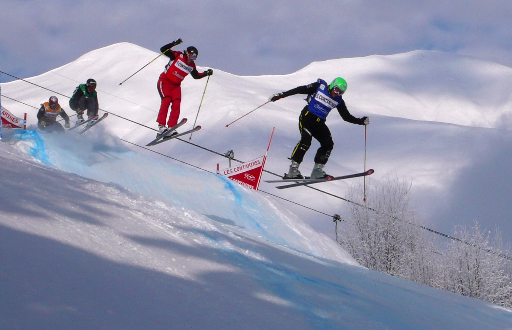 Ski Cross World Cup at Les Contamines-Montjoie, 1/8 final: Beni Hofer, Christopher Delbosco, Sylvain Miaillier, Richard Spalinger.